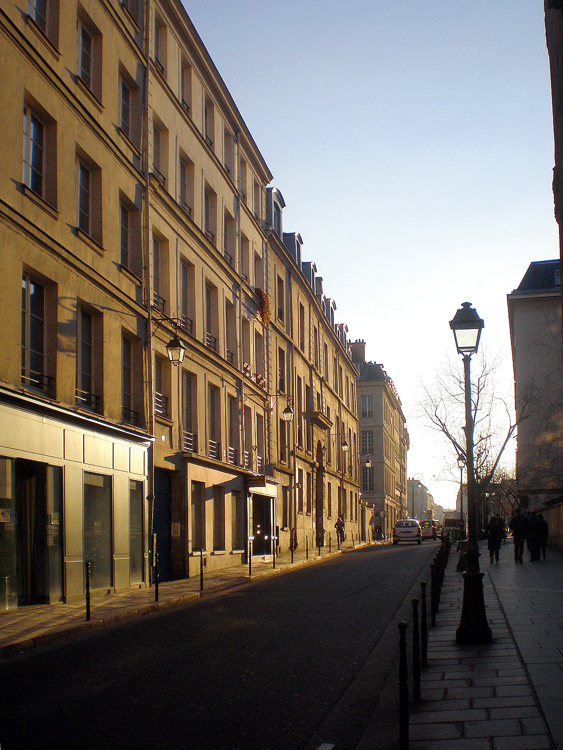 De Fourcy street - Paris